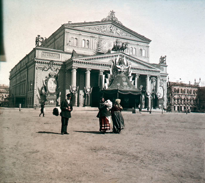 Decoration of the Bolshoi Theatre in Moscow for the coronation of Nicholas II